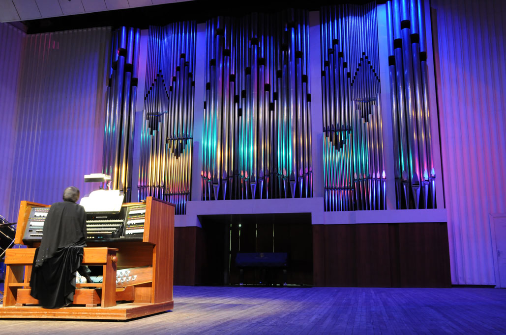 Central Concert Hall in Volgograd. Pipe organ Rieger–Kloss opus 3561.